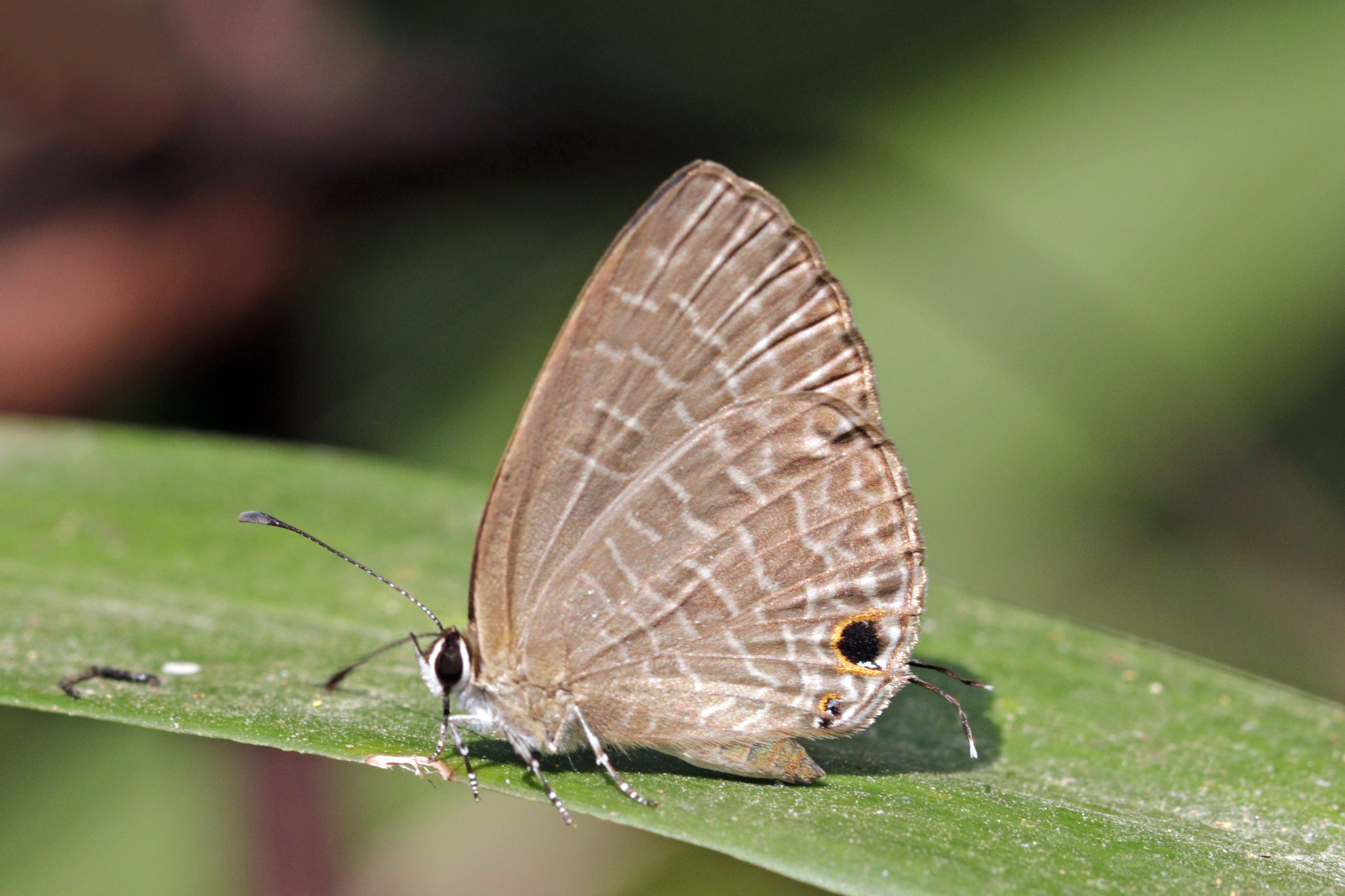 Dark cerulean (Jamides bochus bochus) underside, National Botanical Garden, Godawari, Nepal